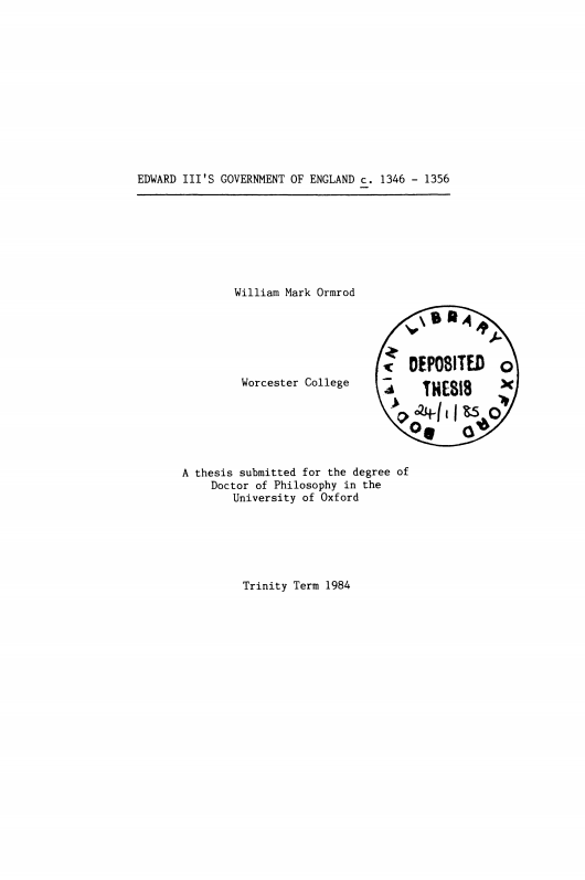 W. M. Ormrod 'Edward III's government of England, c. 1346-1356' (University of Oxford PhD thesis, 1984) title page.